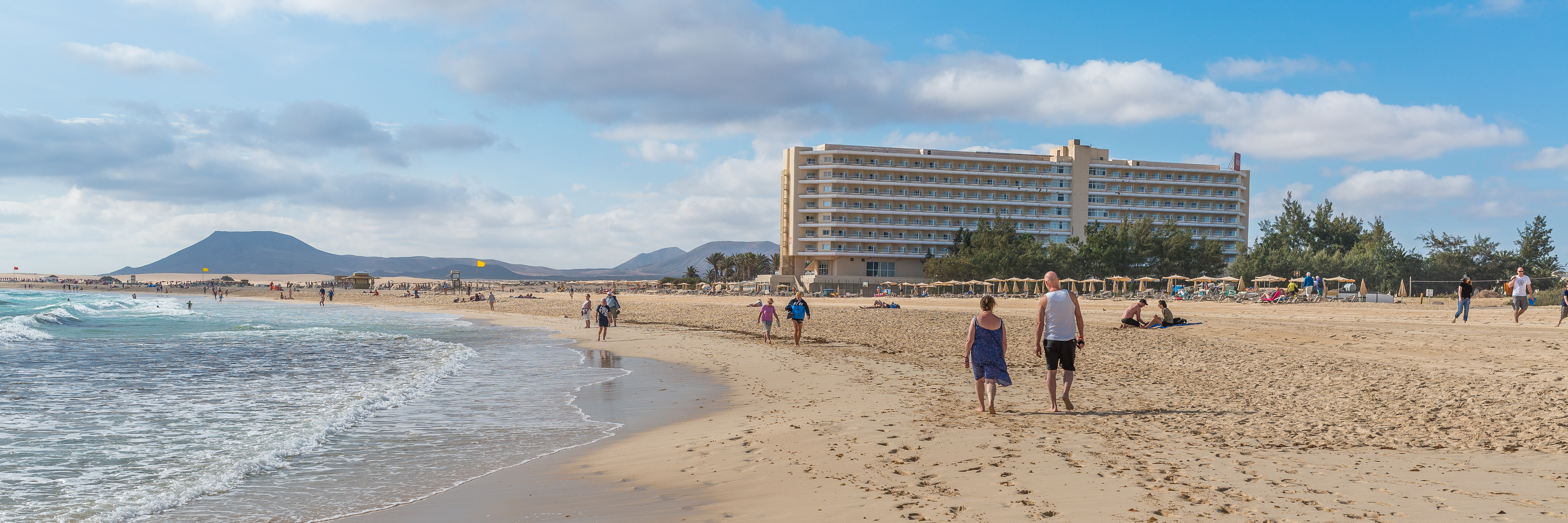 Corralejo Fuerteventura Spain February 2016